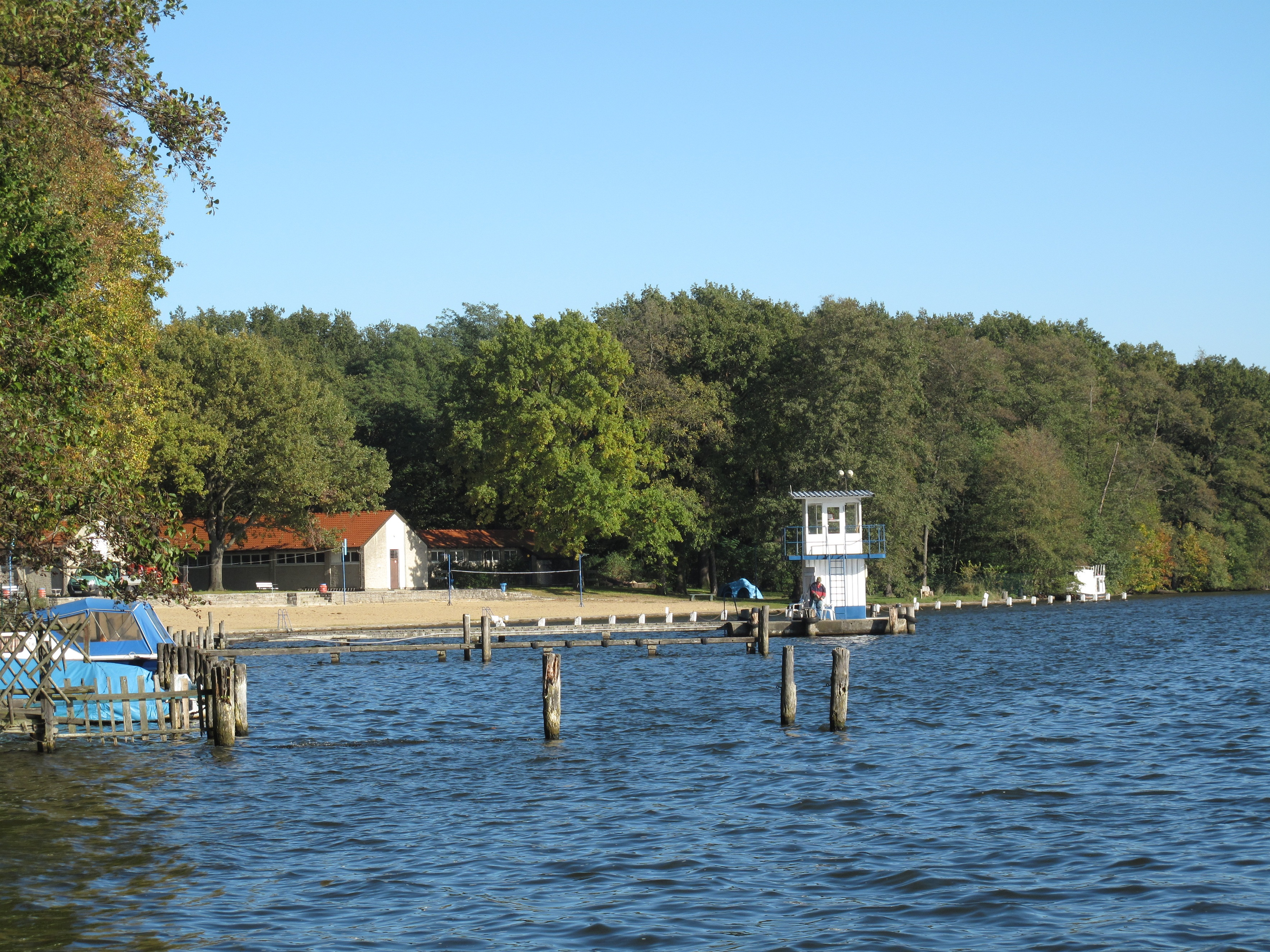 The Seebad Wendenschloss, also known as Strandbad Wendenschloss or Freibad Wendenschloss, is a public open air bath in the locality Köpenick in Berlins borough Treptow-Köpenick, Germany. It is situated in the location Wendenschloß in Berlins city forest at the northern bank of the Langer See (german for: long lake), which is passed by the river Dahme. The bath was opened in 1914/15.